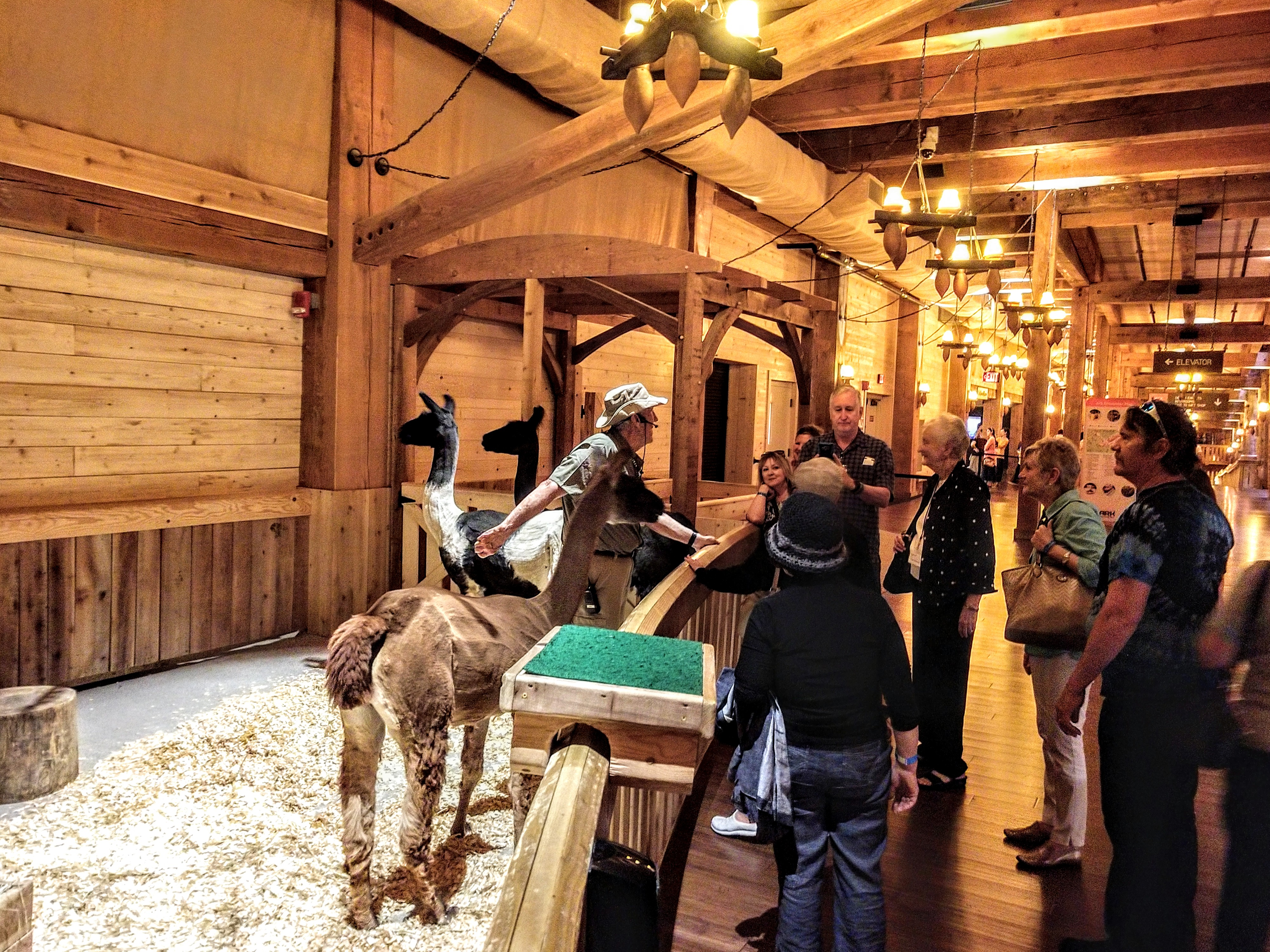 Deck 2, Llama live animal exhibit.